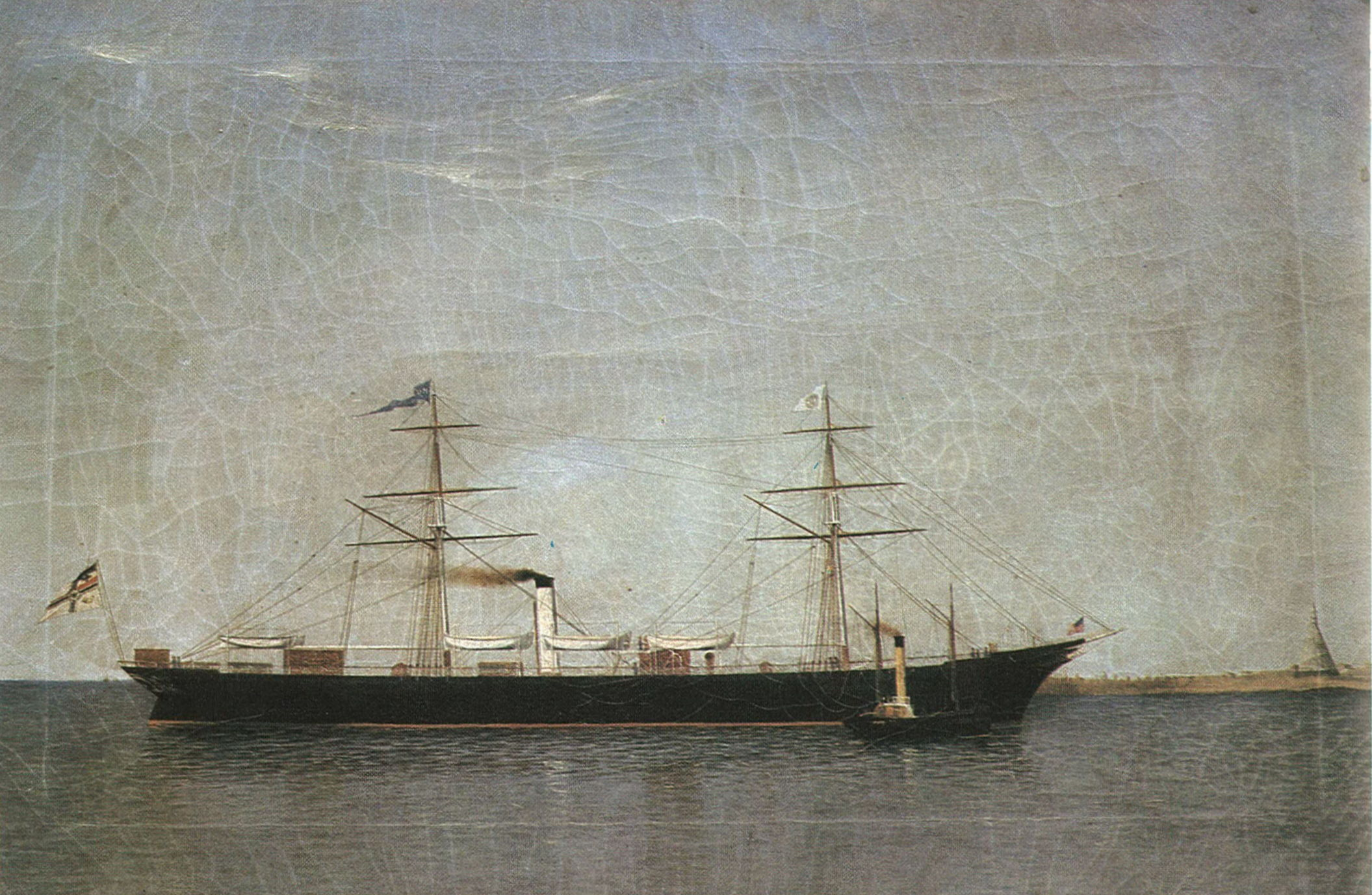 Painting of the SS Humboldt, Baltic Lloyd Stettin (about 1871), in the Heritage Museum Schönebeck